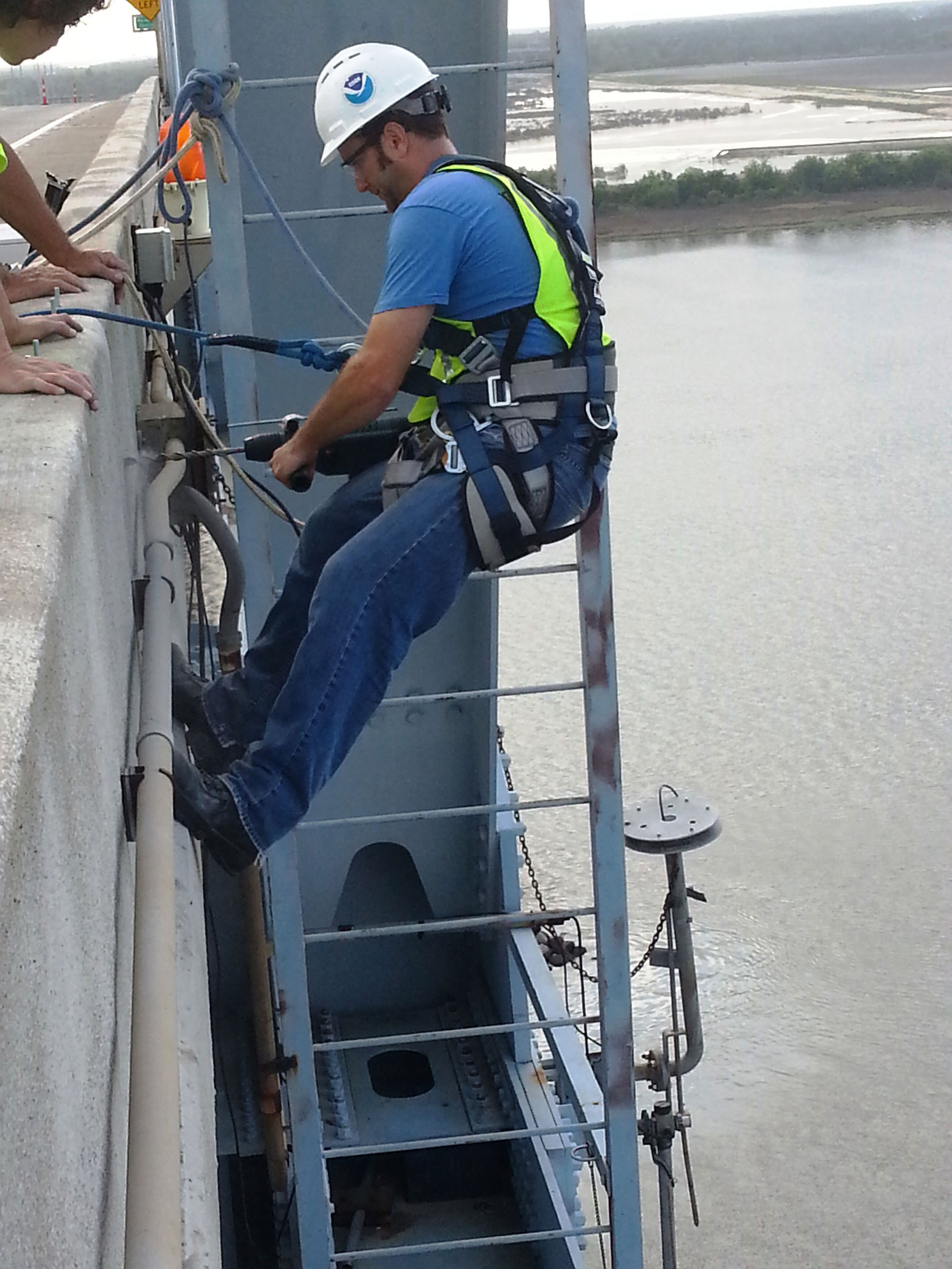 Center for Operational Oceanographic Products and Services staff installs an air gap sensor on the Don Holt Bridge in Charleston, South Carolina. The sensor is part of the Charleston Harbor Physical Oceanographic Real-Time System, or PORTS®. Information from the sensor is critical for under bridge clearance, as ships continue to maximize channel depths and widths while, at the same time, push the bounds of bridge heights.